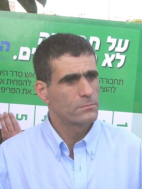 Mossi Raz